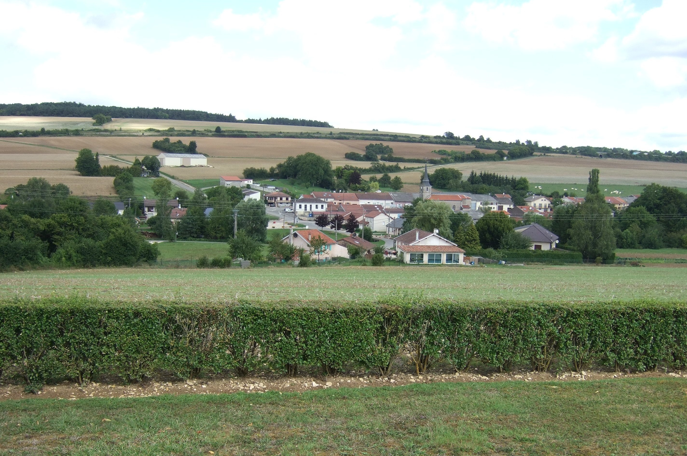 View from south (taken from the military cemetery) of Landrecourt in the municipality of Landrecourt-Lempire (country : France - region : Lorraine - departement : Meuse)